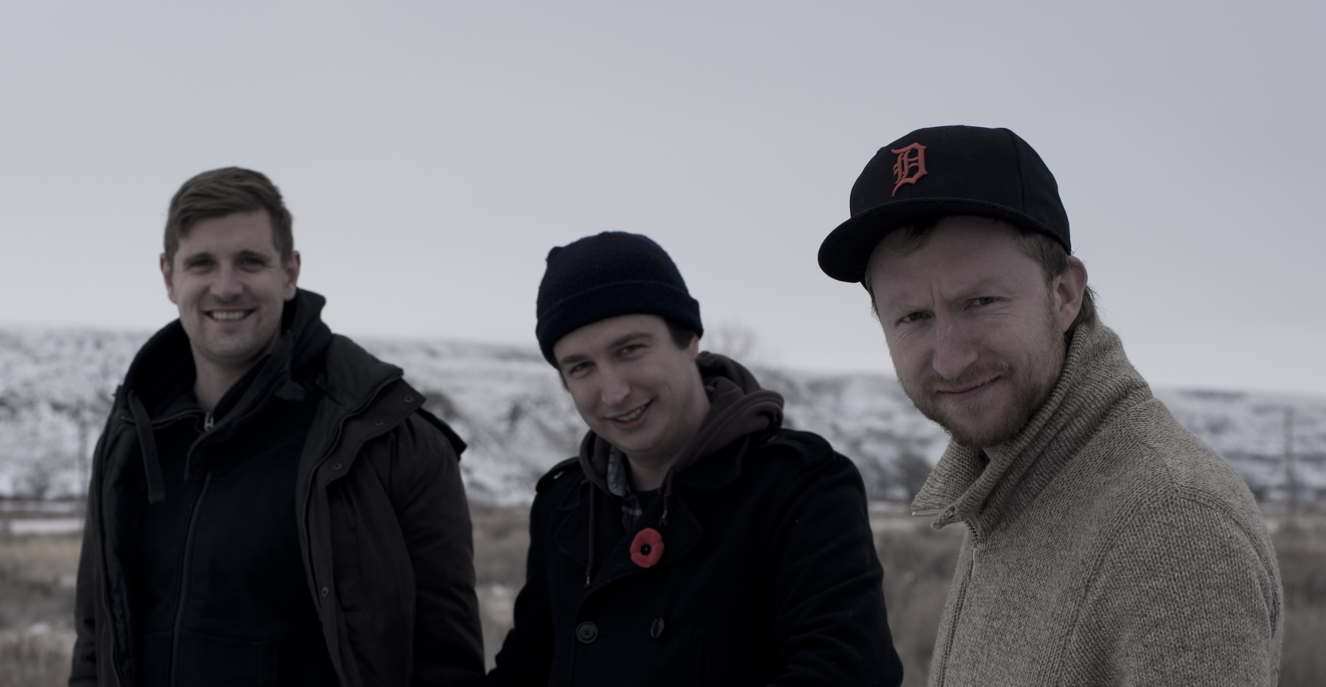 North Country Cinema on set in Alberta, 2012.